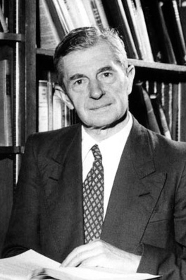 From the 1950s